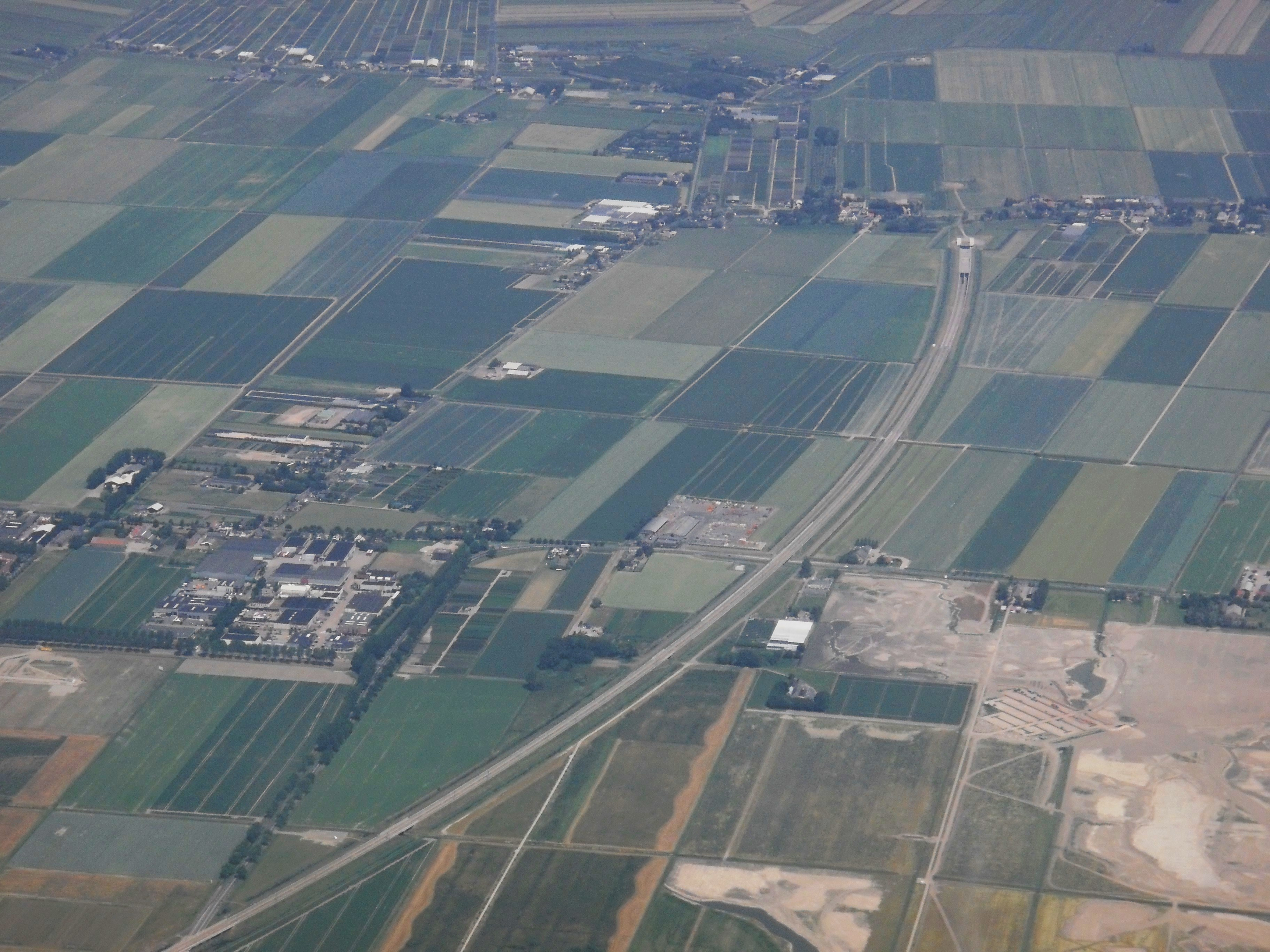 Groene Harttunnel, part of the HSL high speed railway from Amsterdam to Rotterdam.